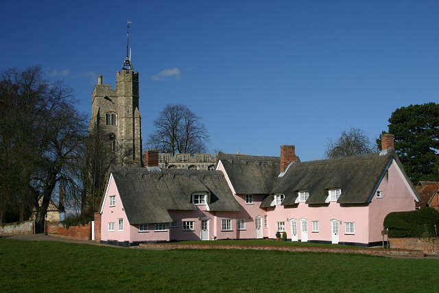 Church Cottages, High Street, Cavendish, Suffolk, seen from the southwest, with the parish church of St Mary the Virgin behind